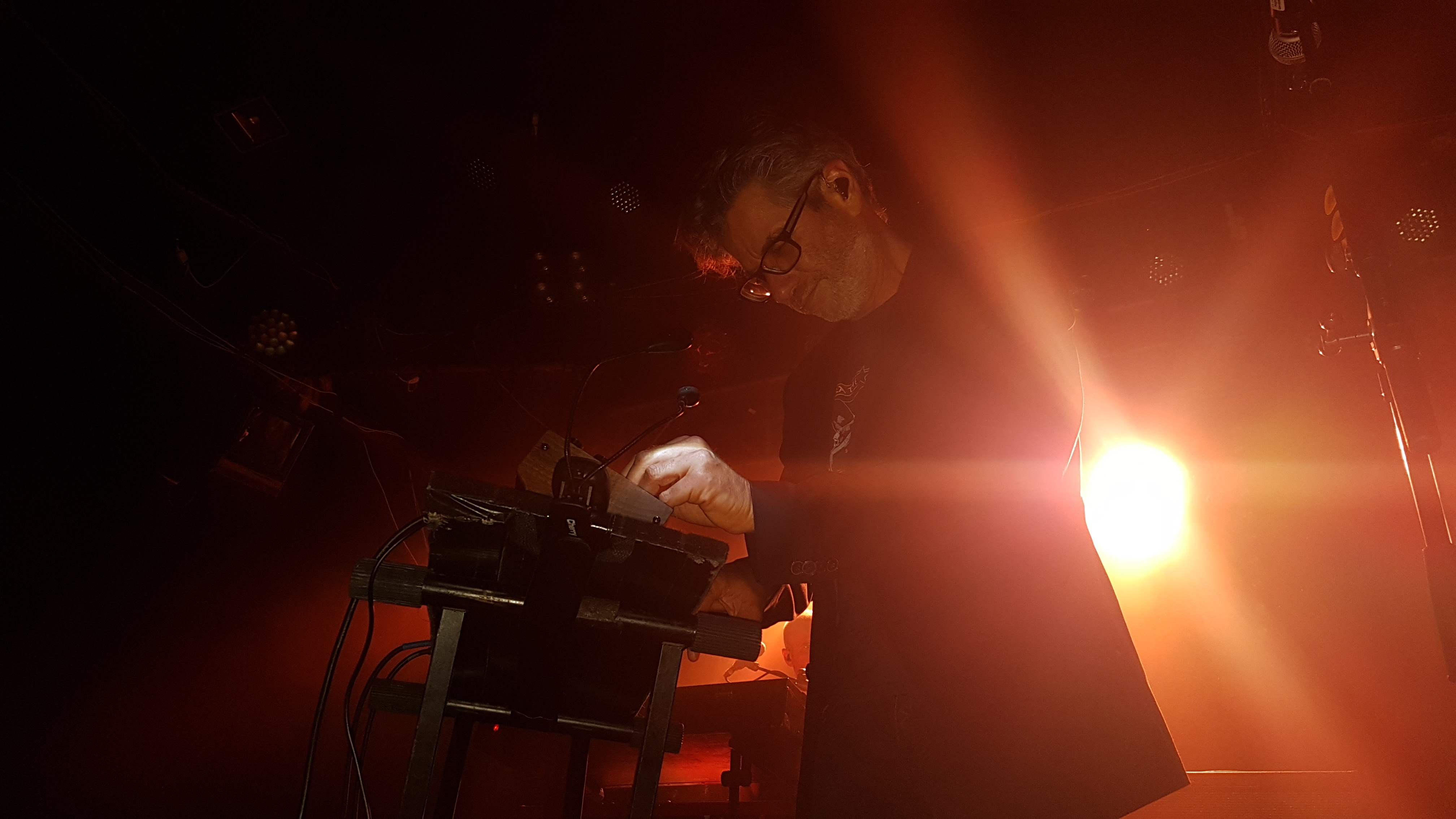 Mashina - The Barby Club, Tel Aviv June 2017